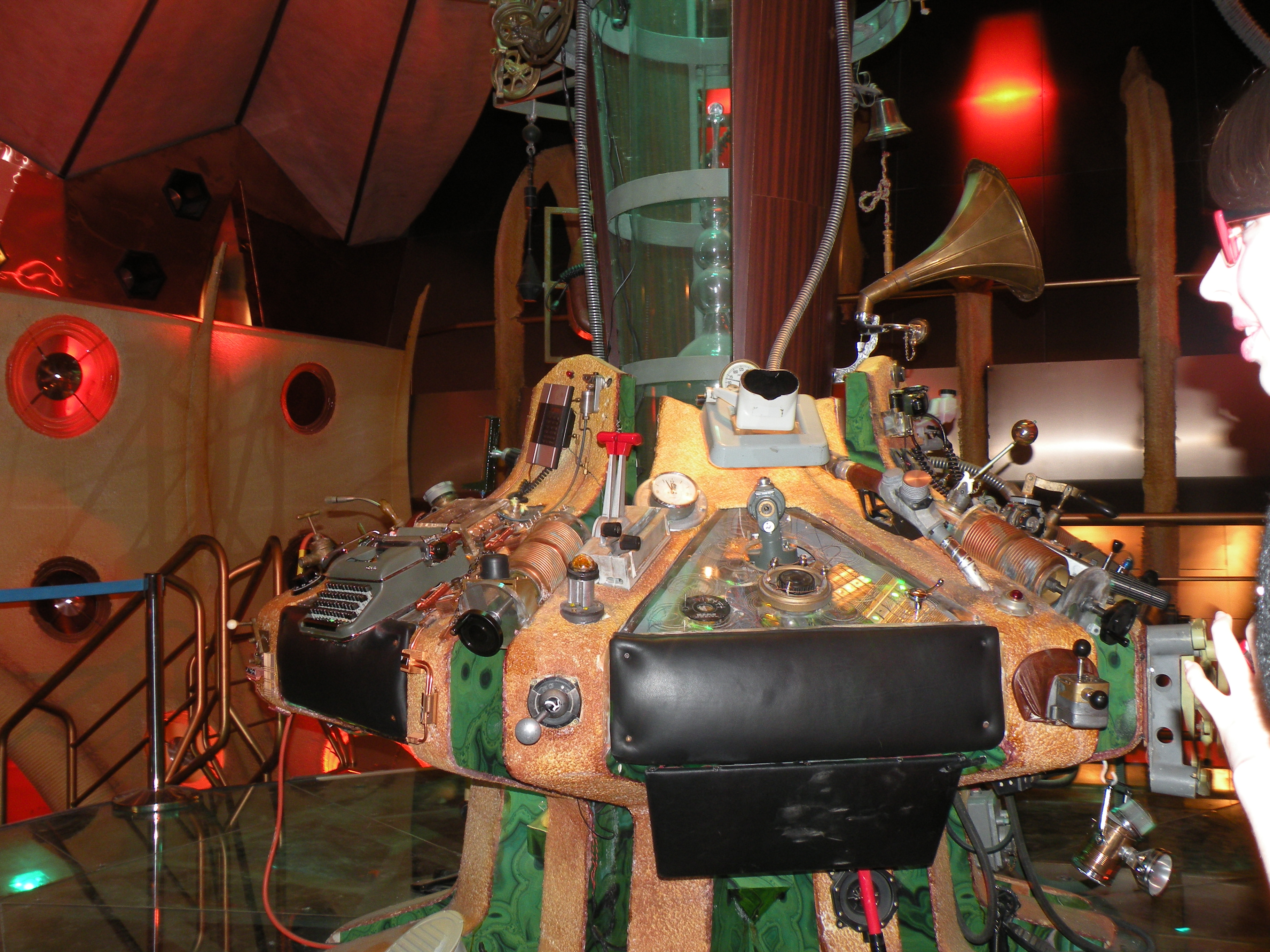 BBC Tardis Set Doctor Who Experience